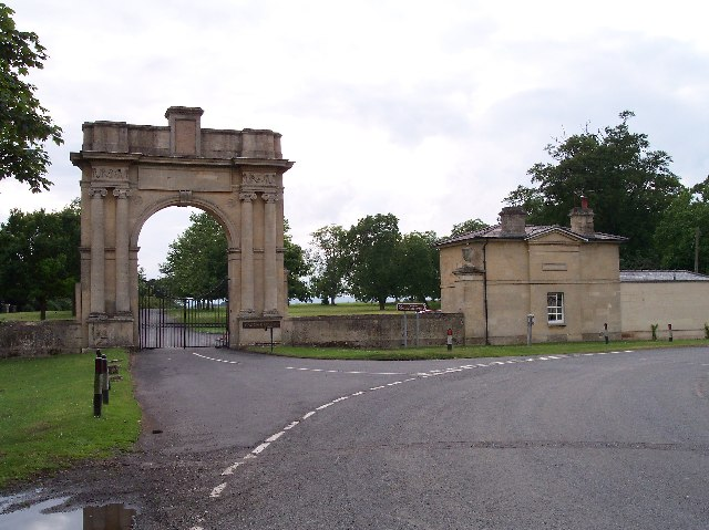 The entrance gates to Croome Court